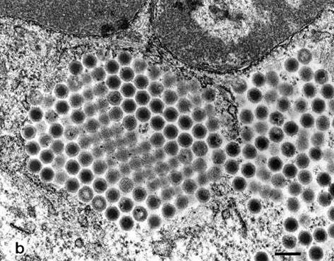 Transmission electron micrographs of iridovirus cultured from the liver of a naturally diseased common frog (Rana temporaria) by using a fathead minnow epithelial cell line. 4a. Virus-infected cell. Large isocahedral viruses are conspicuous within the cytoplasm (arrows). Bar = 2 µm. 4b. Paracrystalline array of iridovirus. Bar = 200 µm.